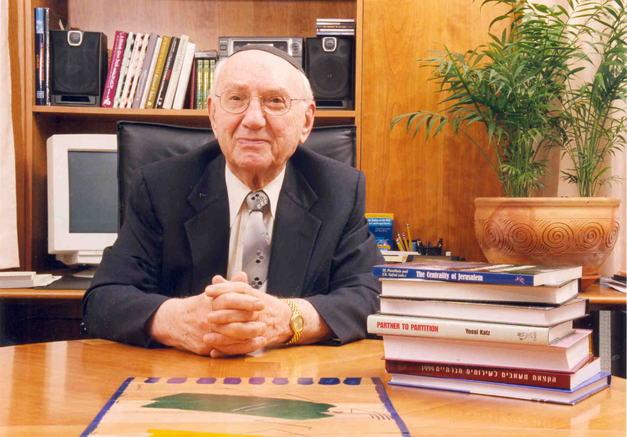 Rabbi Prof. Emanuel Rackman President 1977-1986